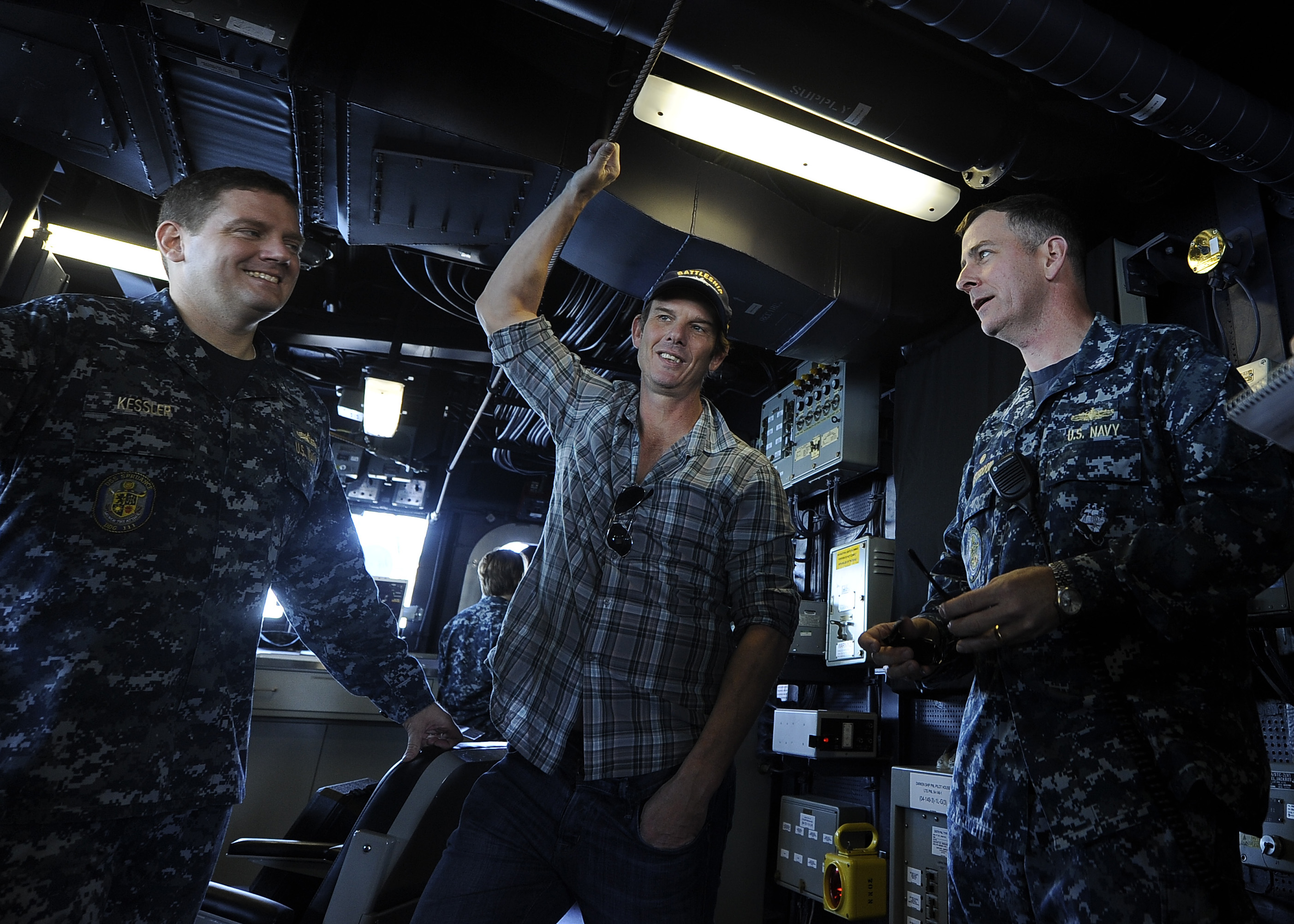 PACIFIC OCEAN (Jan. 9, 2012) Cmdr. George Kessler, executive officer of the Arleigh Burke-class guided-missile destroyer USS Spruance (DDG 111), and Cmdr. M. Tate Westbrook, the ship's commanding officer, provide a tour of the ship to Peter Berg, the director of the 2012 feature film "Battleship", which showcases Navy destroyers. Spruance is a multi-system guided-missile destroyer designed to operate independently or with an associated strike group.